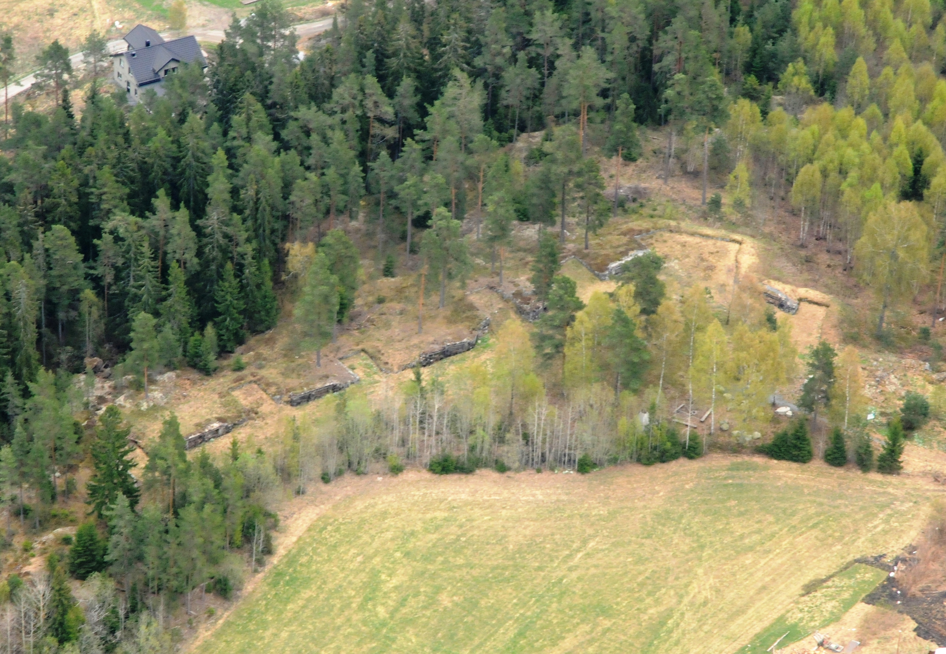 Kjellås battery positions